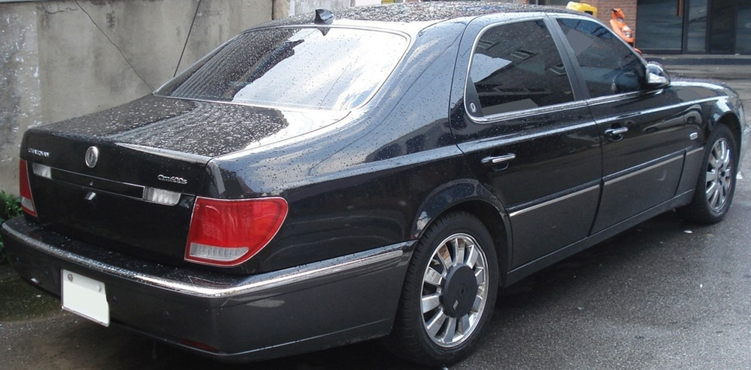 SsangYong New Chairman